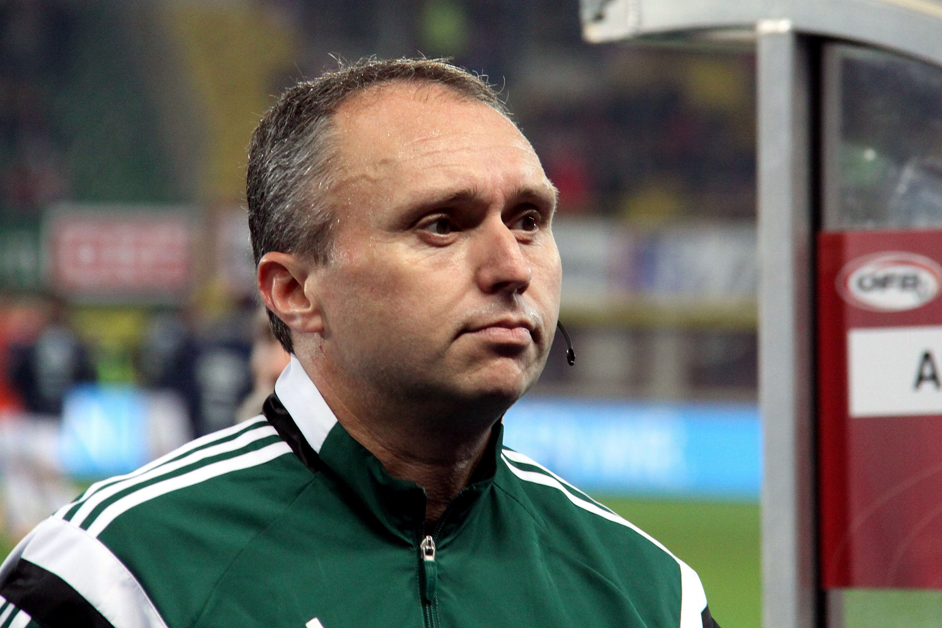 UEFA Euro 2016 qualifying: Austria vs. Russia (1:0 / 0:0) at 2014-11-15 in the Ernst-Happel-Stadion in Vienna. – The photo shows Darren Cann (England).